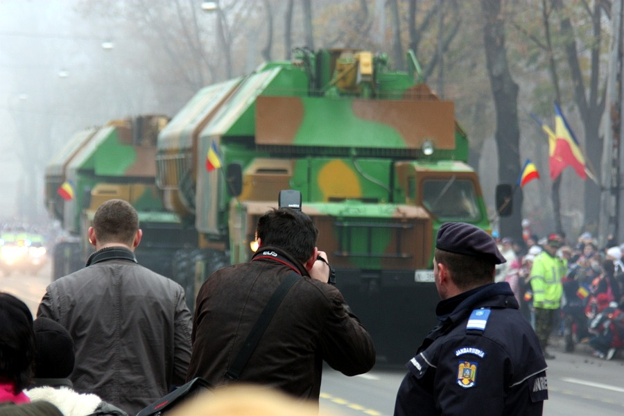 A Romanian 4K51 Rubezh (NATO-Code: SSC-3 Styx) soviet-built anti-ship-missile launcher for coastal defense on the Romanian National Day parade on December 1st, at the Triumph Arch in Bucharest.